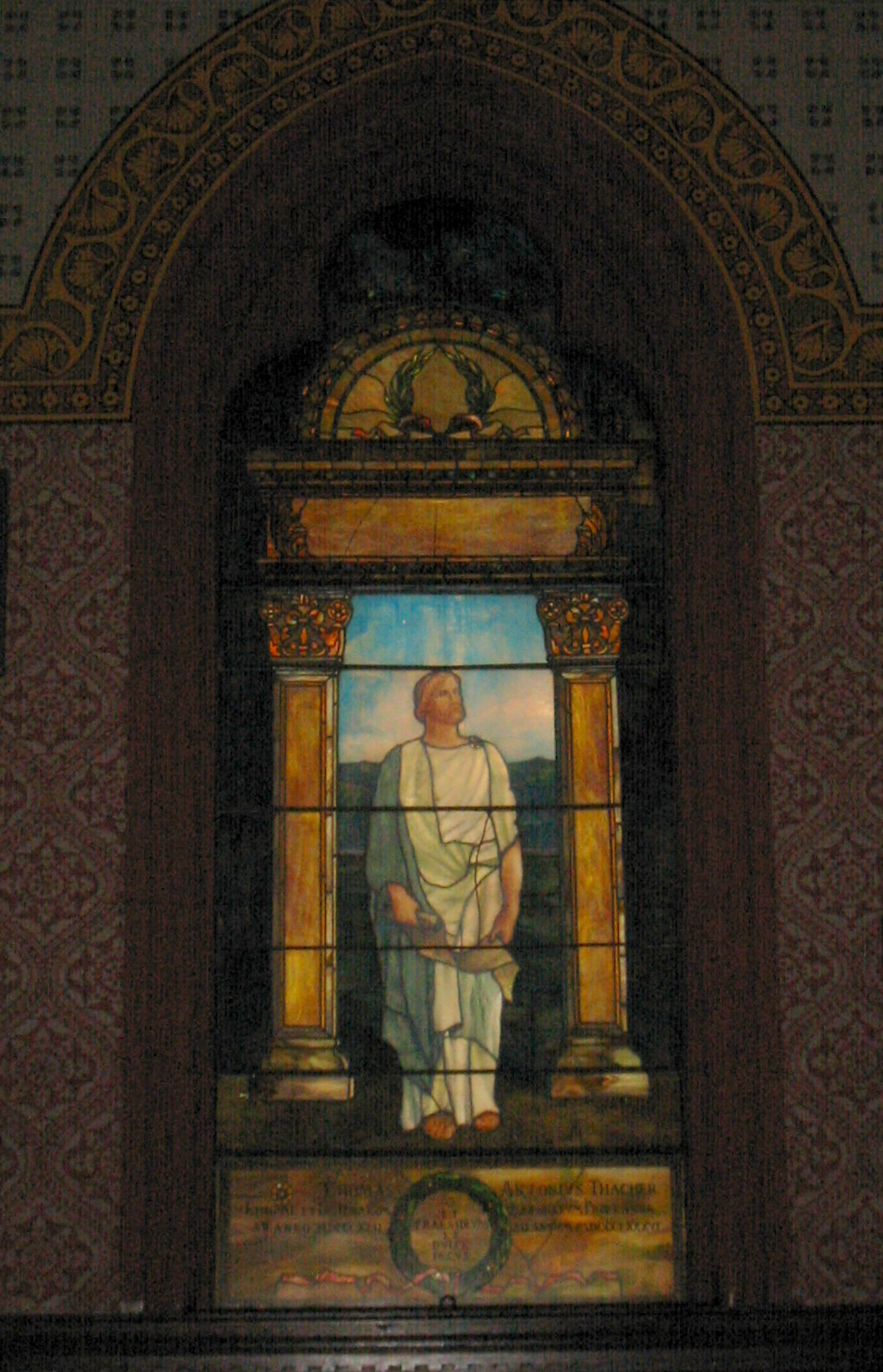 A window by Maitland Armstrong in Yale University's Battell Chapel, depicting the philosopher Seneca.